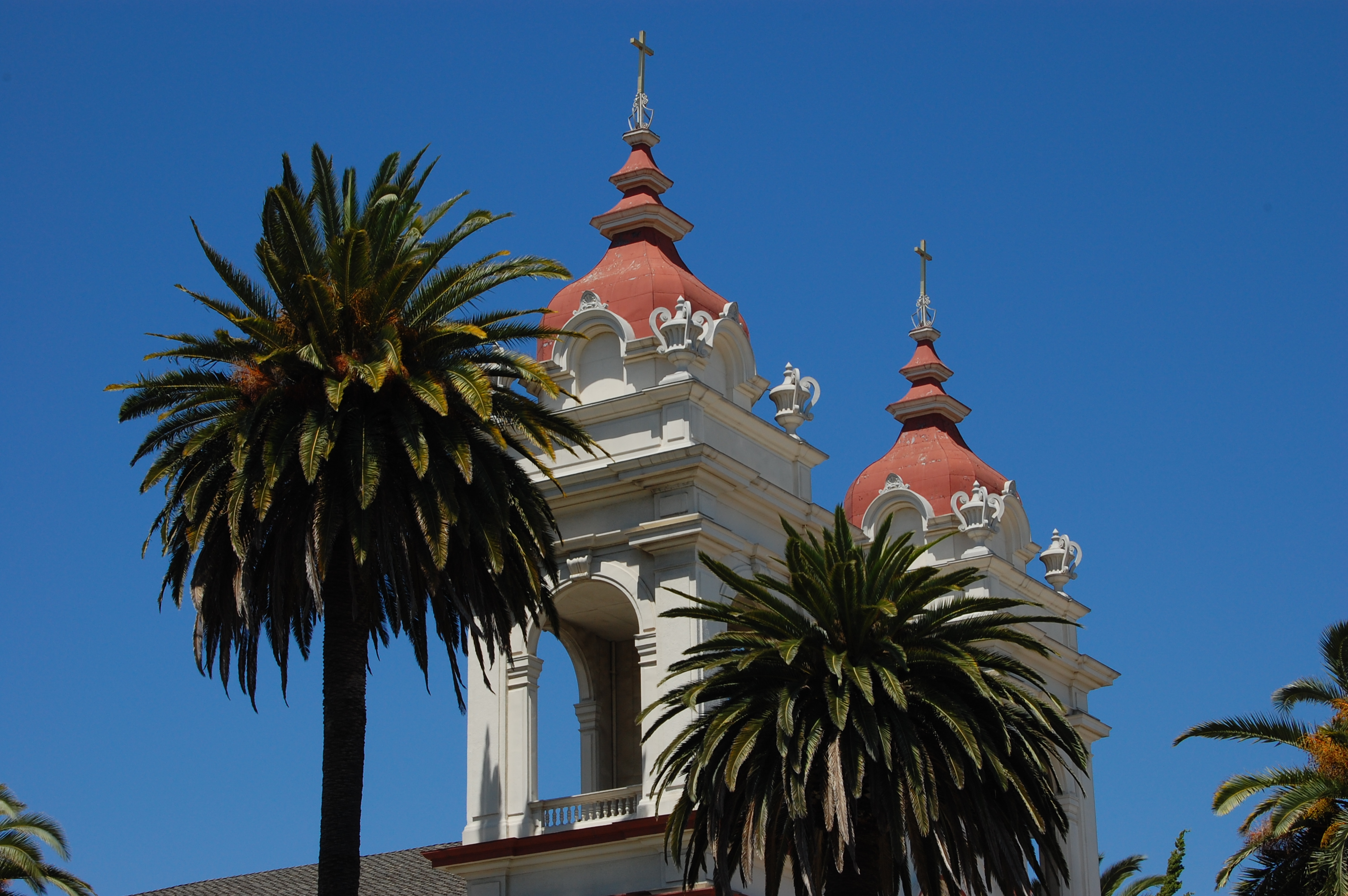 Five Wounds Portuguese National Church. 1375 East Santa Clara St Street. San Jose, California, USA